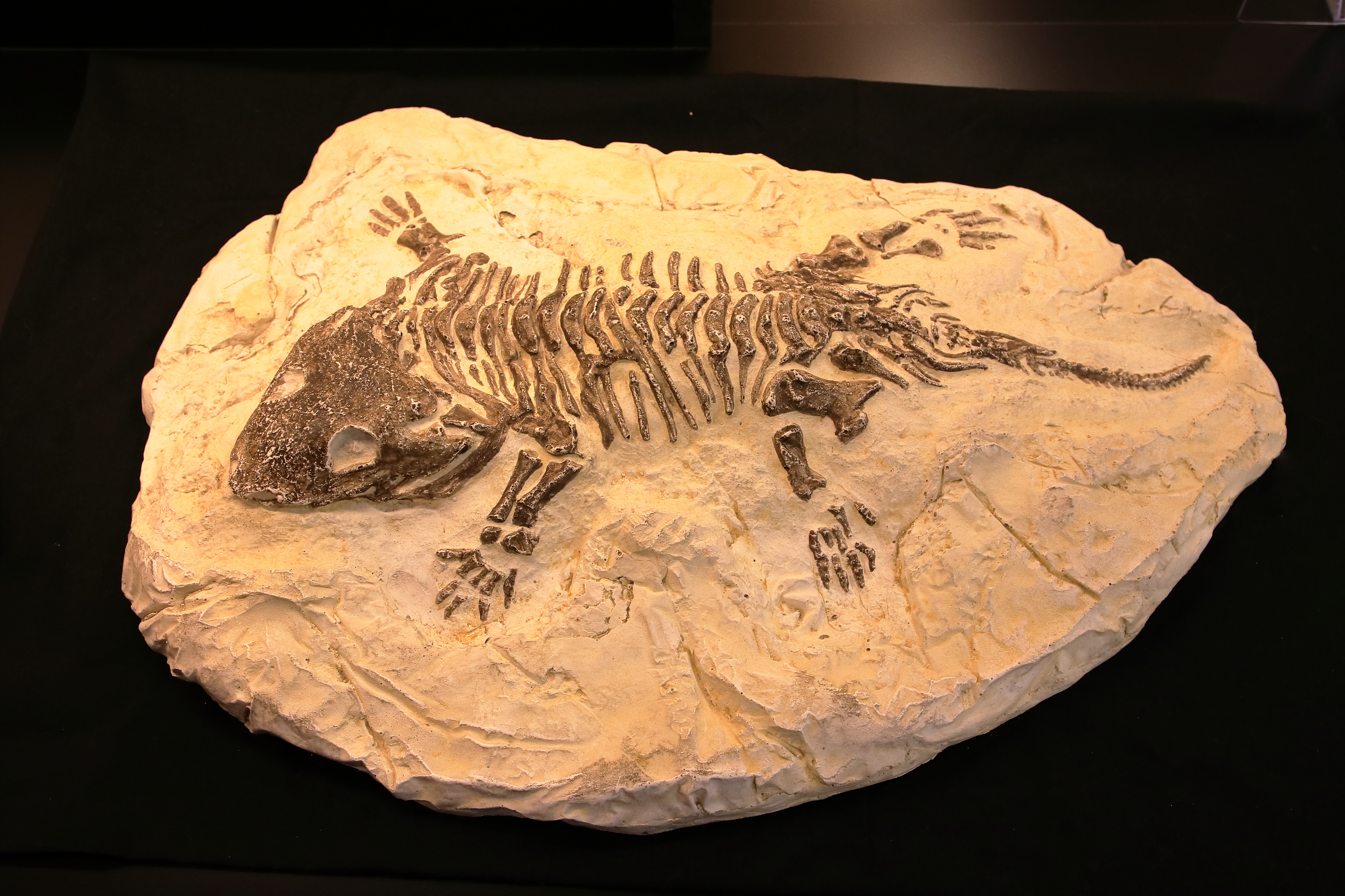 Fossil of a Seymouria. Picture taken at California Academy of Sciences, San Francisco, USA.